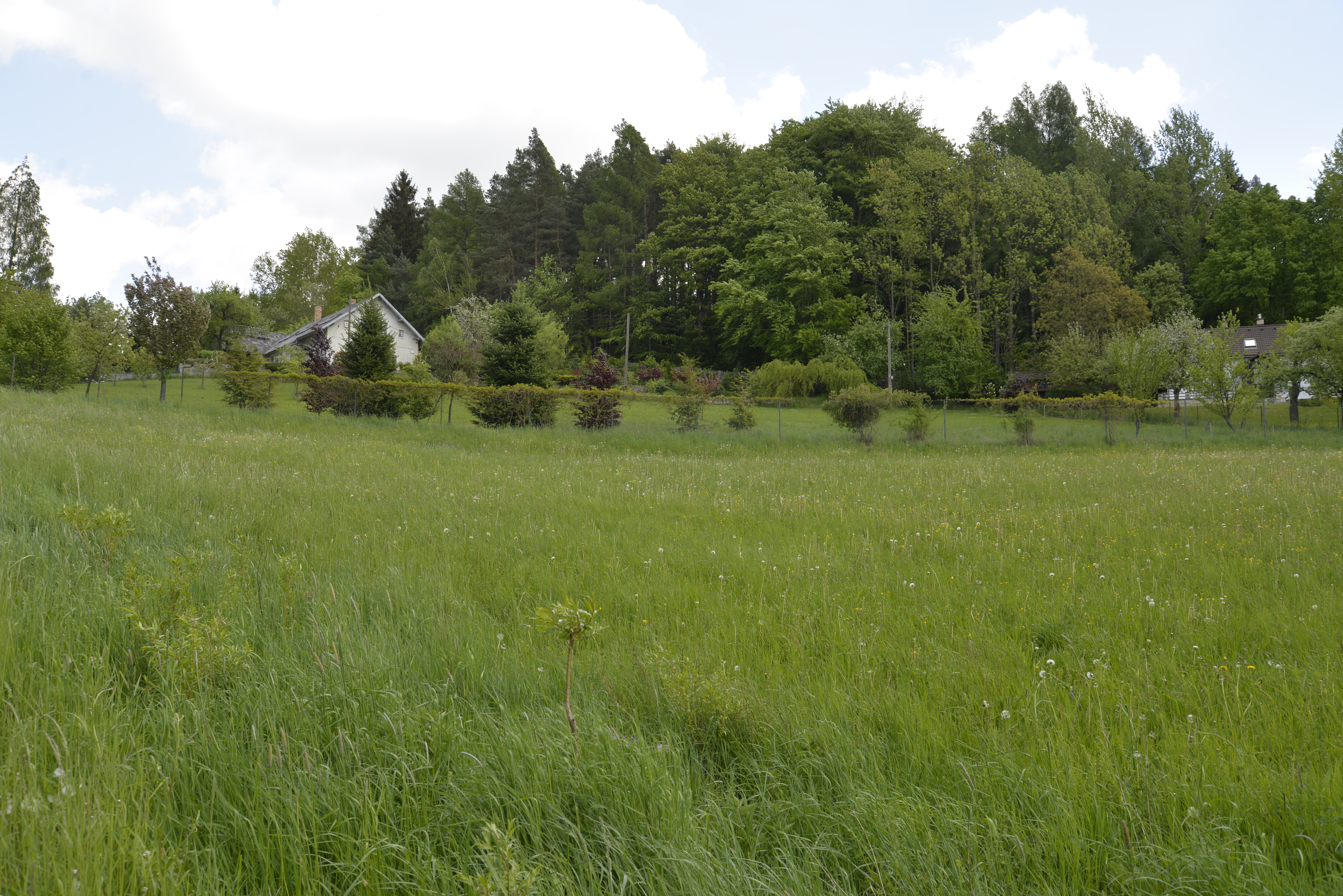 Libentiny close to Líšný